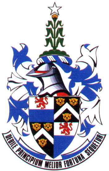 Coat of arms of the City of Durban, 1912-2000